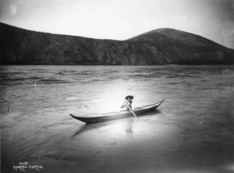 Caption on image: 46137. Asahel Curtis .Handwritten on verso: Chief Isaac in canoe near Dawson .PH Coll 519.46137 Subjects (LCTGM): Tribal chiefs--Canada; Canoes--Yukon Subjects (LCSH): Isaac, Han Chief; Han Indians--Kings and rulers; Han Indians--Yukon